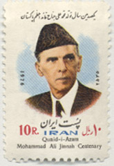 100th birthday of Muhammad Ali Jinnah